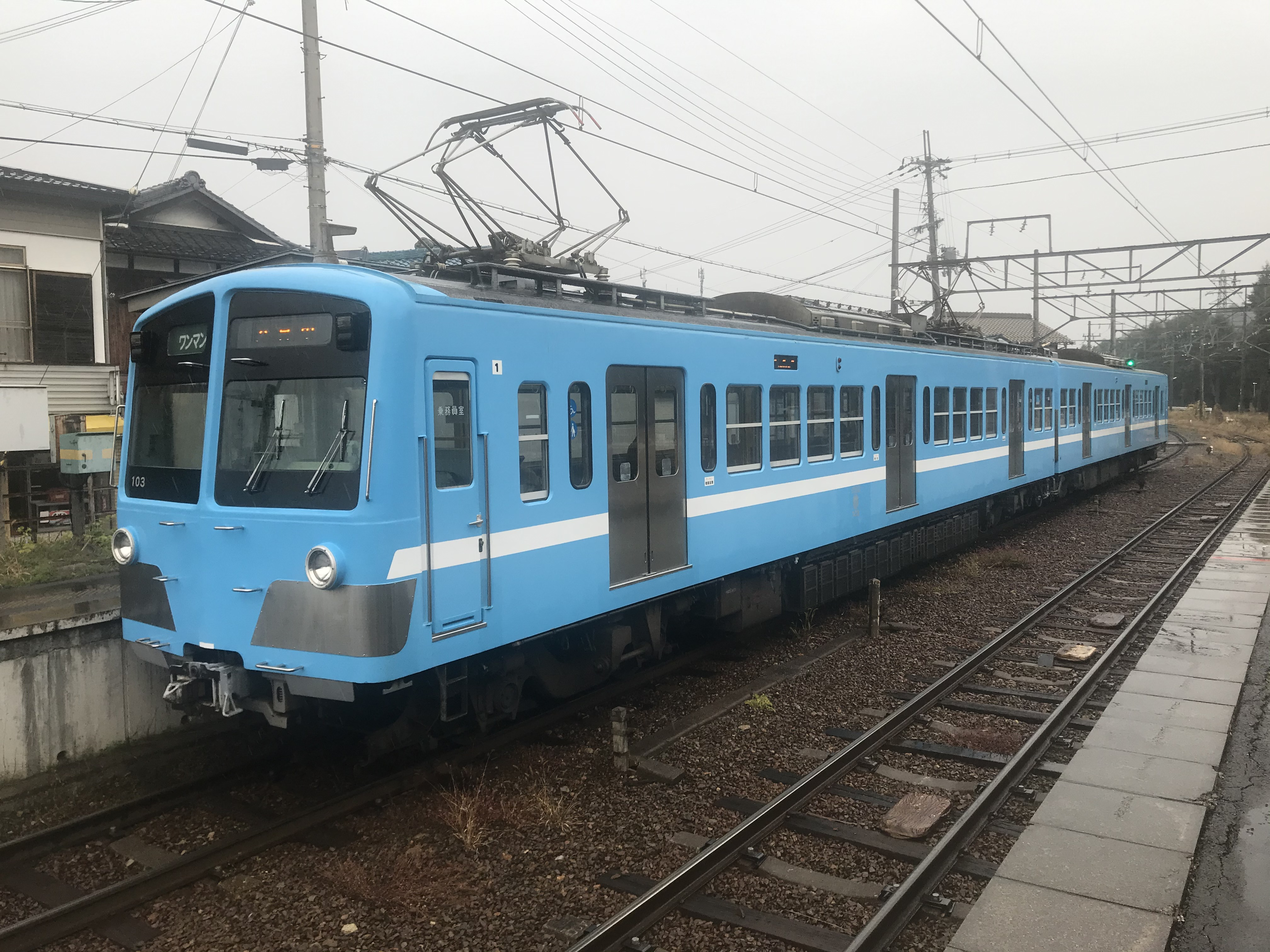 Ohmi railway 811 at Musa station